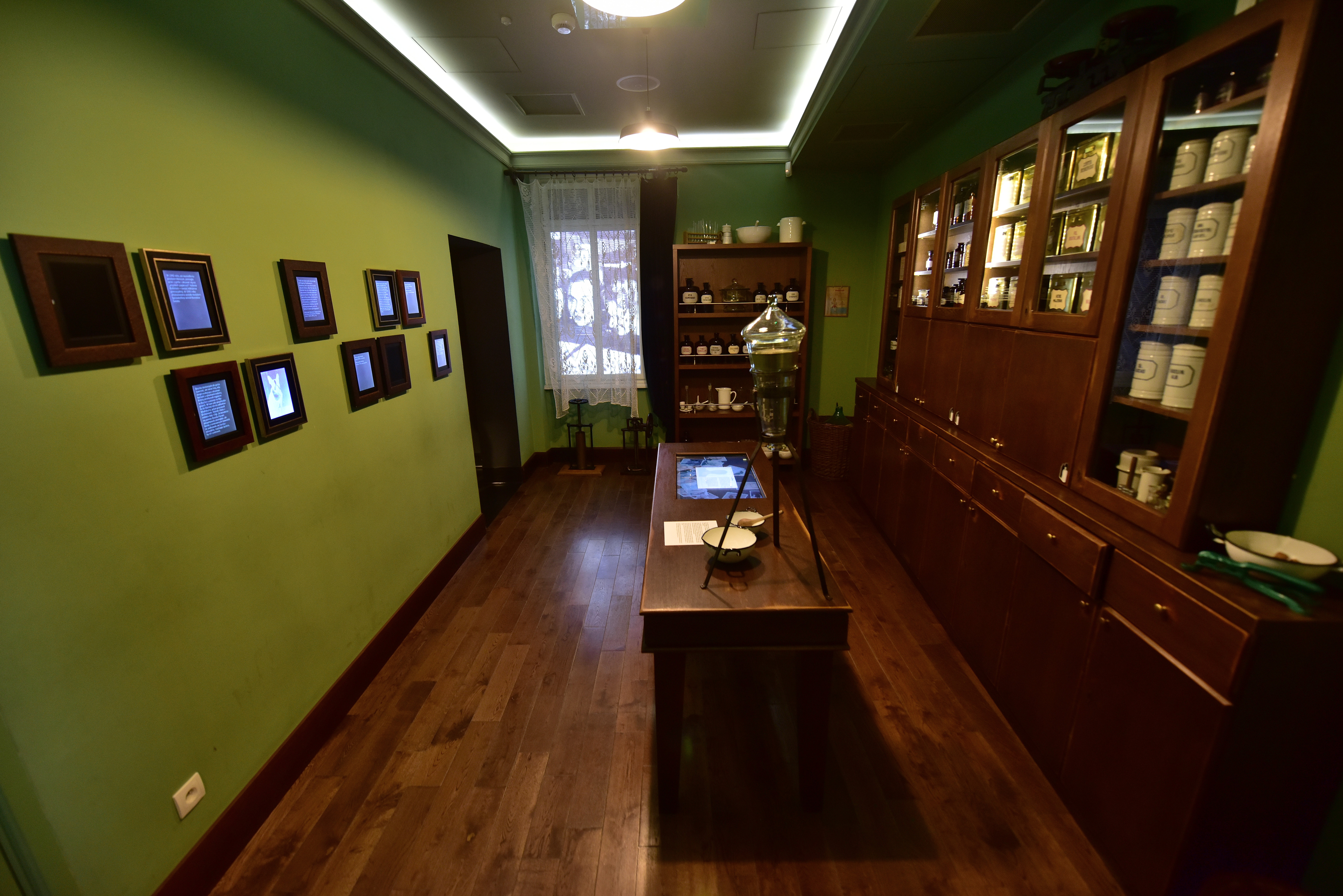 Pharmacy Pod Orłem in Kraków